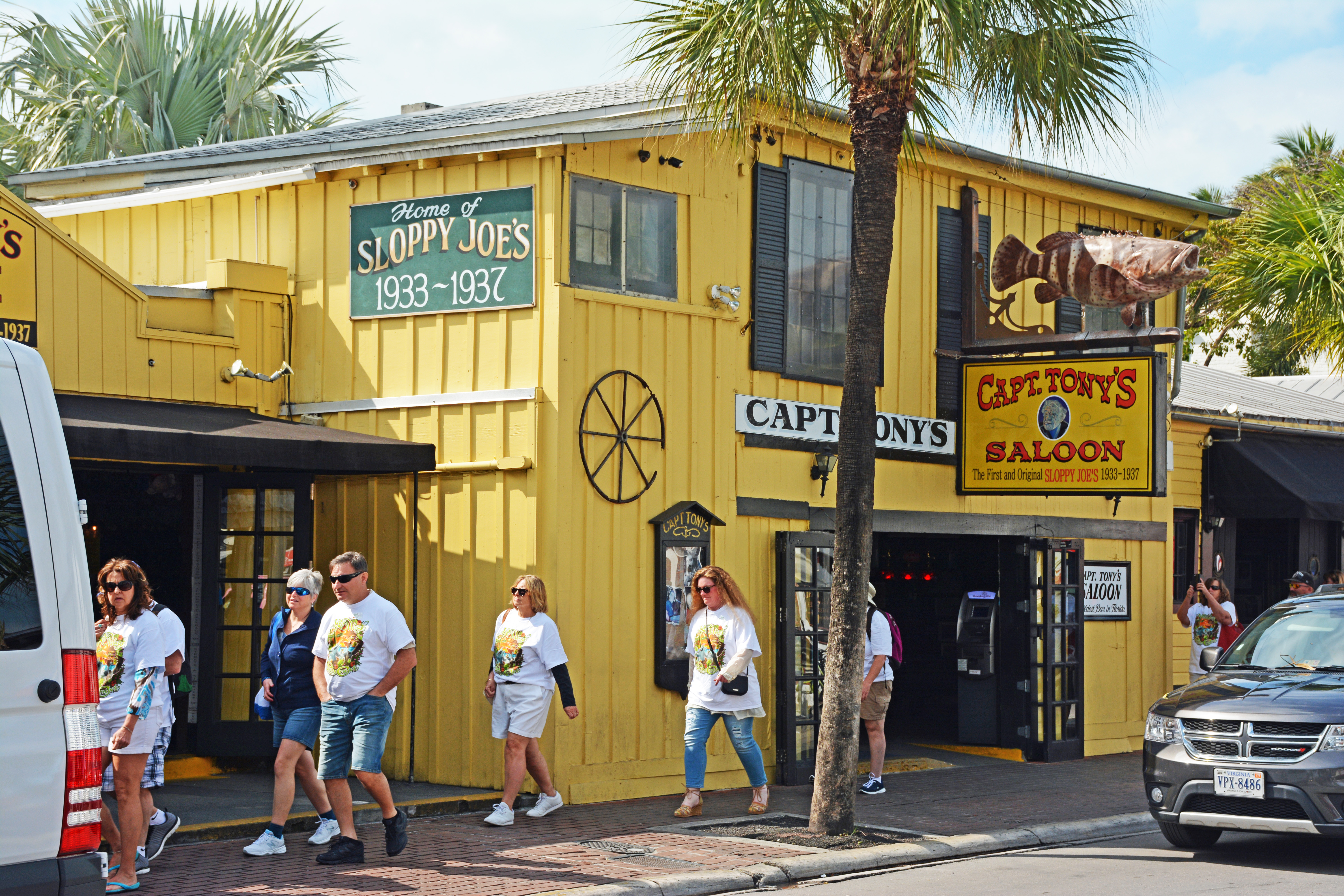 The original location of Sloppy Joe's Bar, Key West, Florida, U.S.